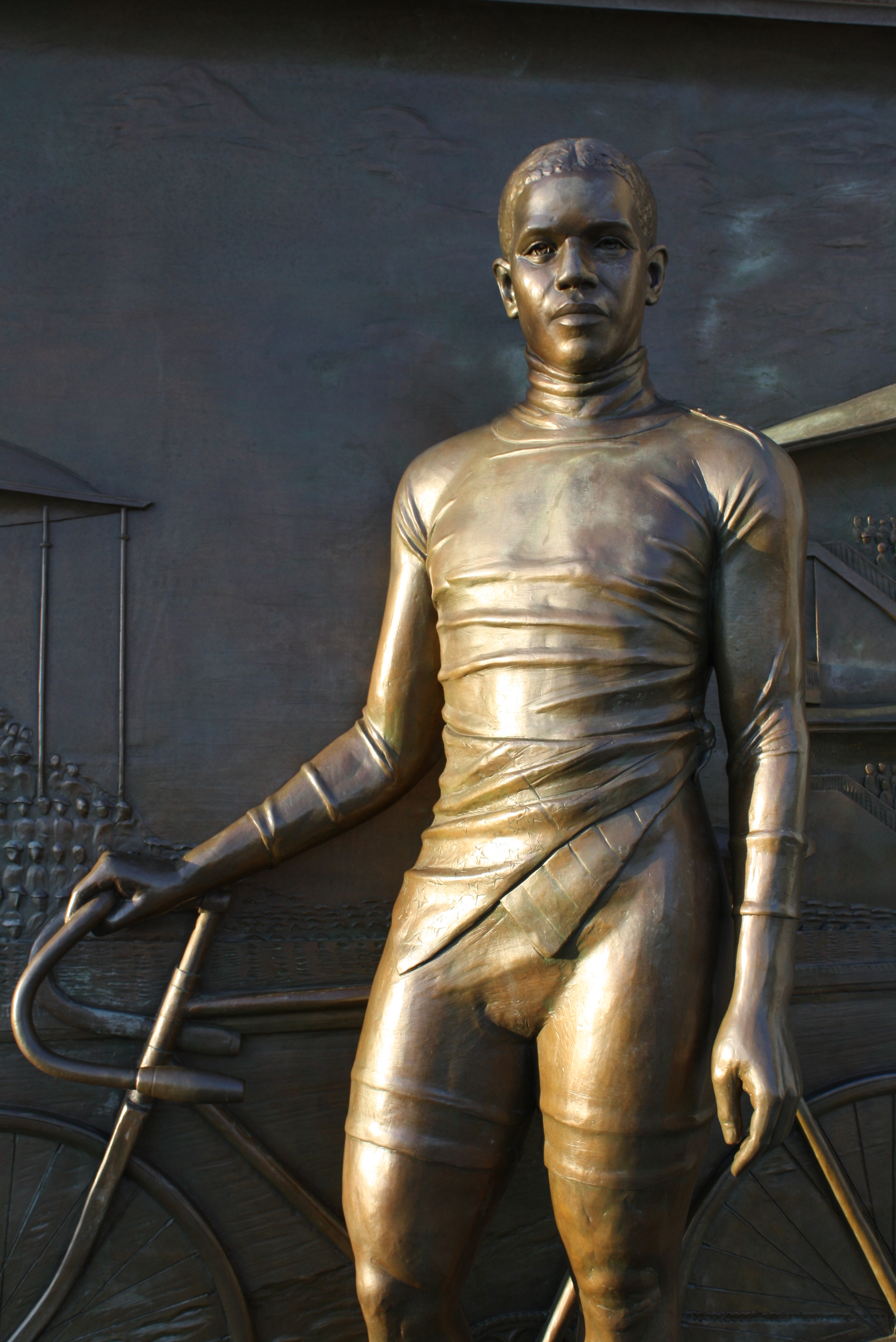 Worcester Public Library - Worcester, MA - Major Taylor